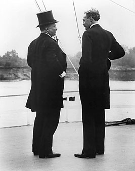 US President Theodore Roosevelt (1858–1919) with US Forest Service Chief, Gifford Pinchot (1865–1946)